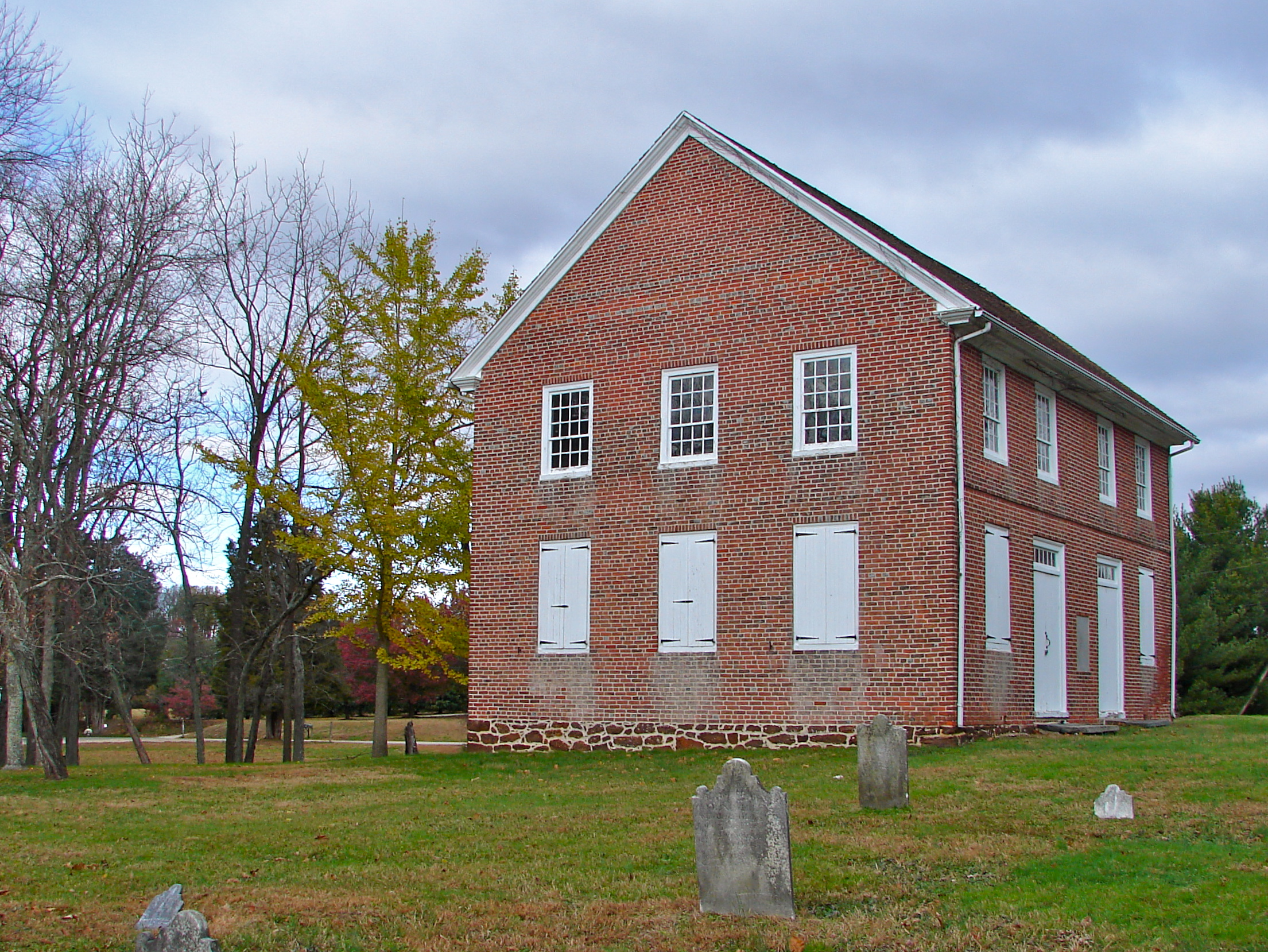 Moravian Church in Glouster County, NJ, South of Swedesboro. On the NRHP since April 3, 1973. On Swedesboro-Sharptown Rd. in Woolwich Township. Note the lack of steeple, 2 entrance doors (male and female) and exceptionally simple style